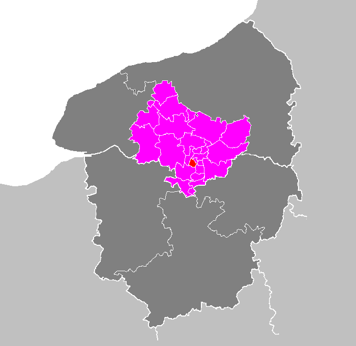 Maps of arrondissements and cantons of France: Arrondissement de Rouen - Canton du Grand-Quevilly.PNG